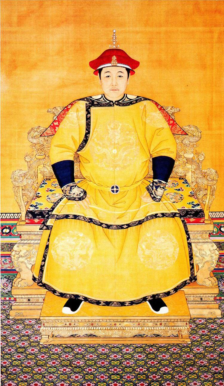 Emperor Shunzhi of the Qing dynasty.